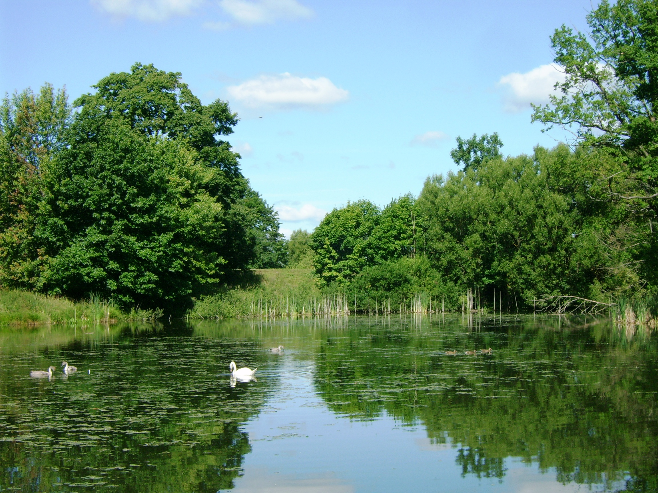 Park in Adakavas village